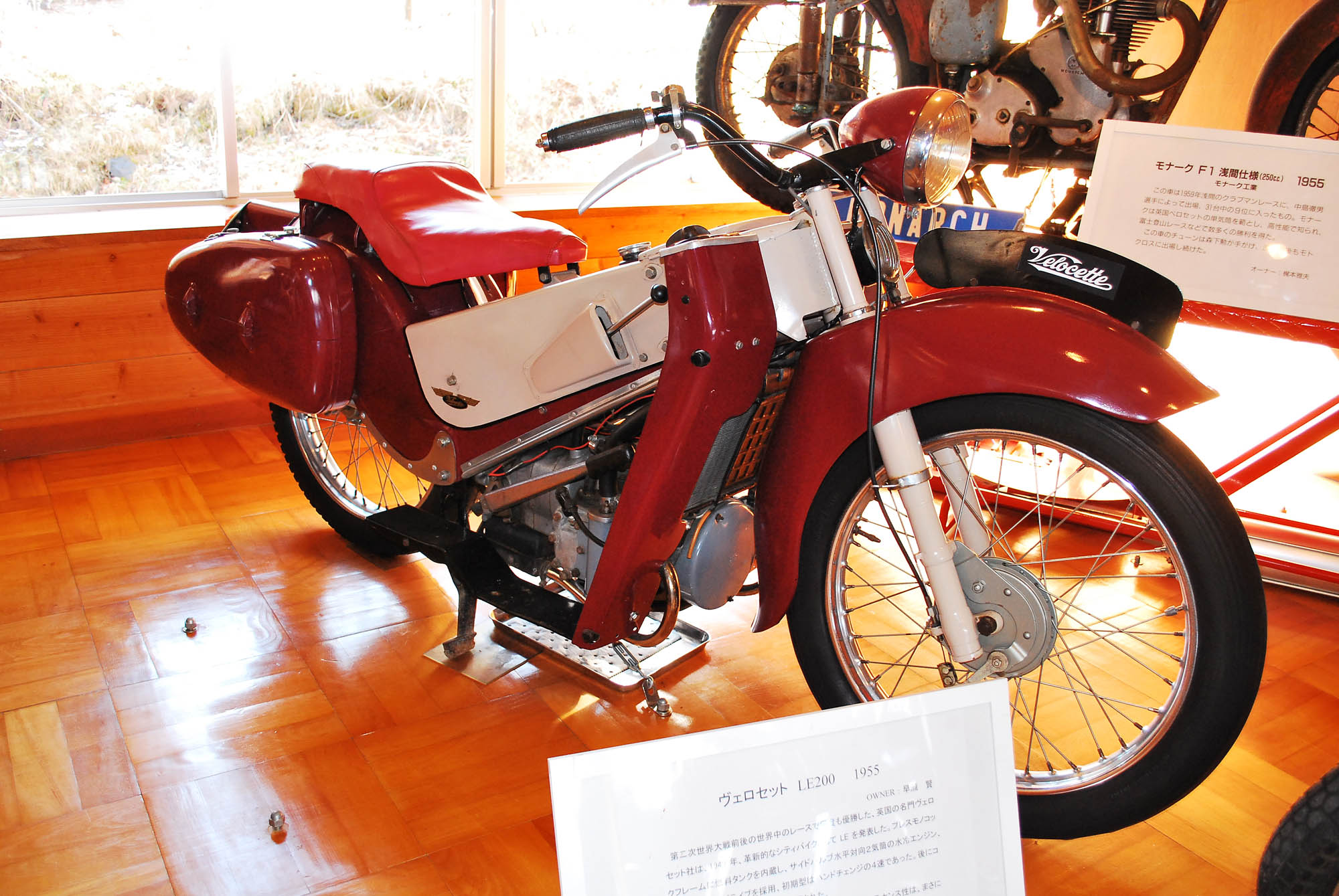 1955 Velocette LE Mark II